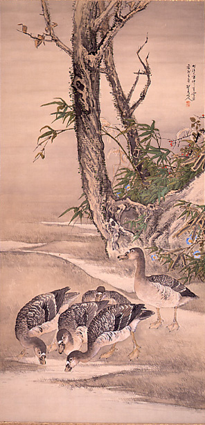 Shusui Gungan Zu (Wild Geese in Autumn)